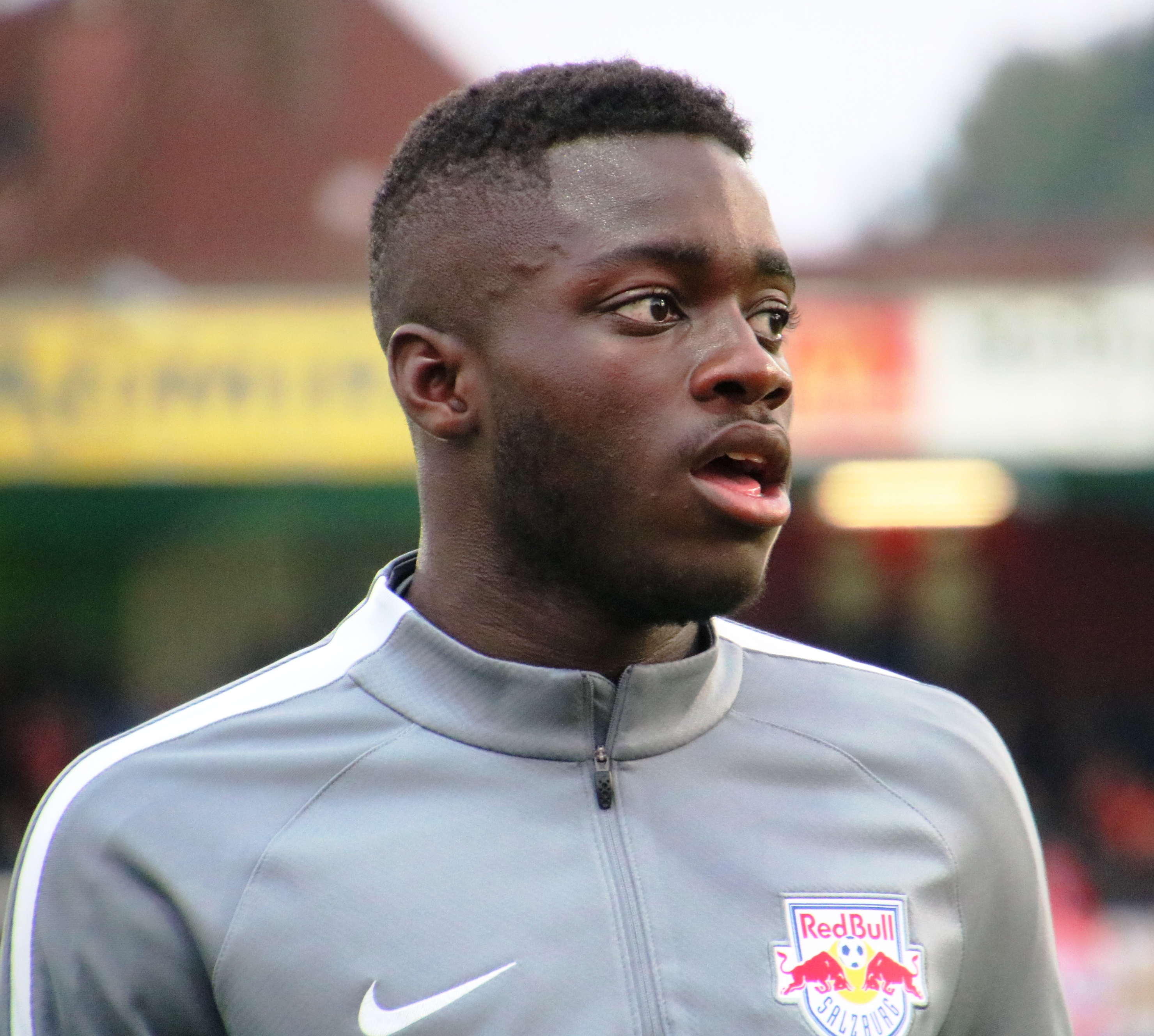 Austrian Cup 1st round